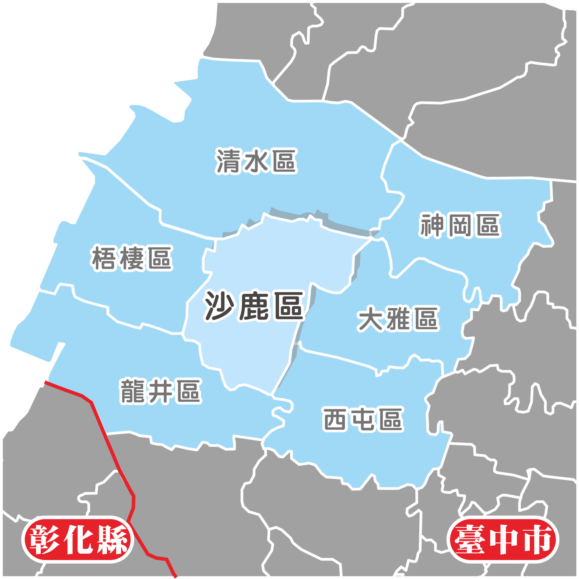 Shalu District中文（台灣）: 臺中市沙鹿區。